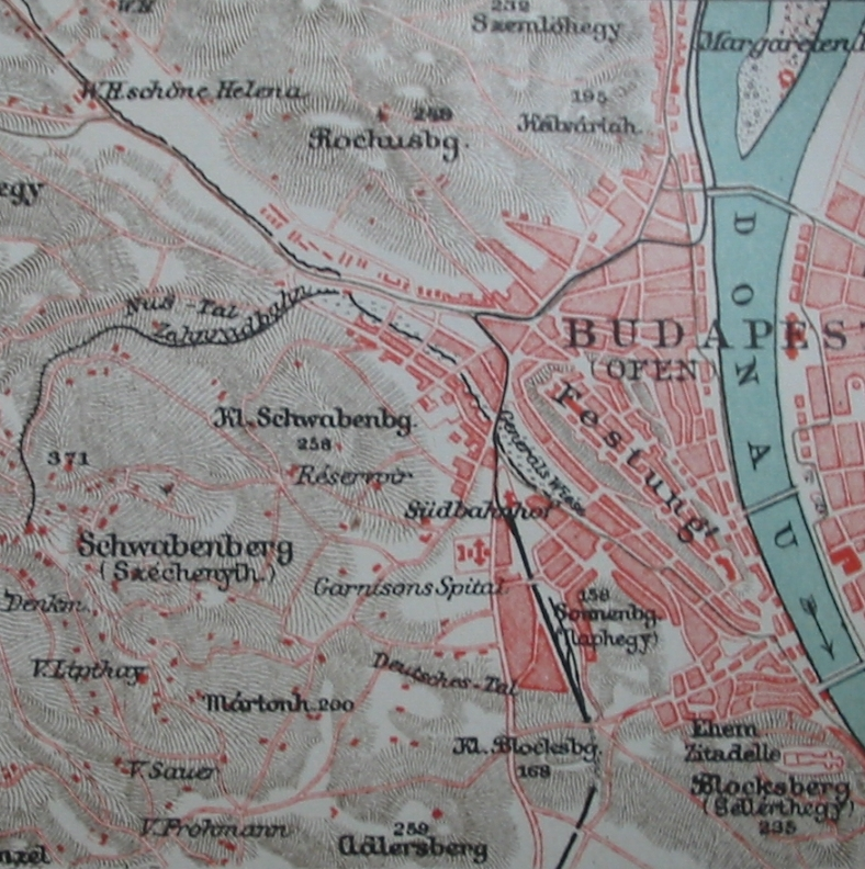 Budapest, 1905 Photo User:Tamas Szabo